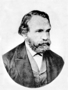 Photo of Carl Exter, German inventor and railway pioneer